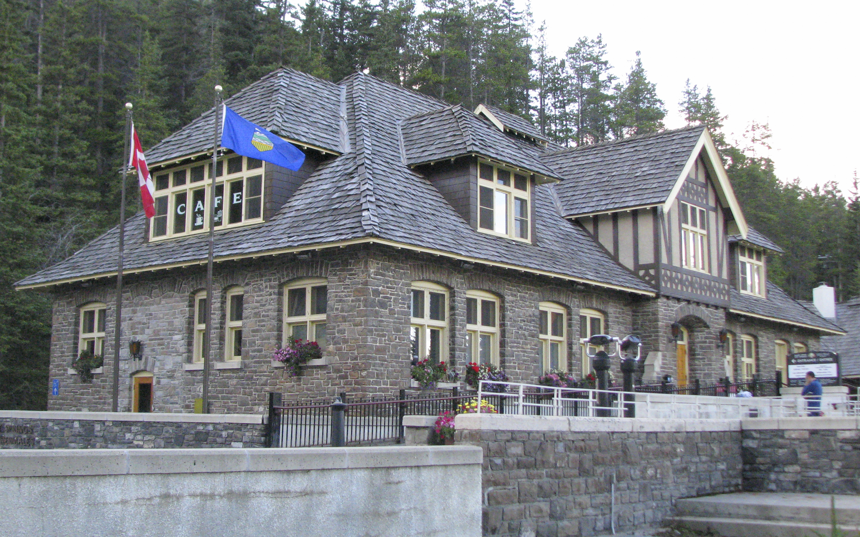 Upper Hot Springs Bathhouse, Banff, Alberta. Viewed from the southeast